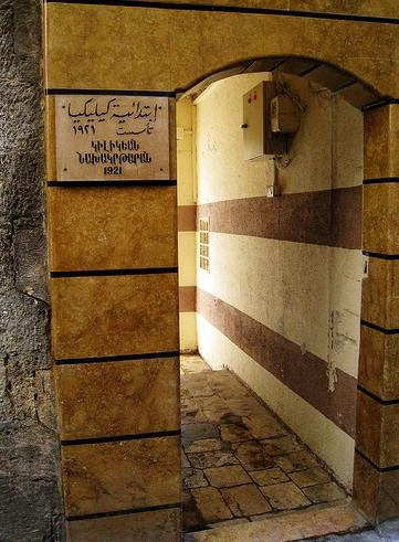 Kilikia high school Aleppo,Syria